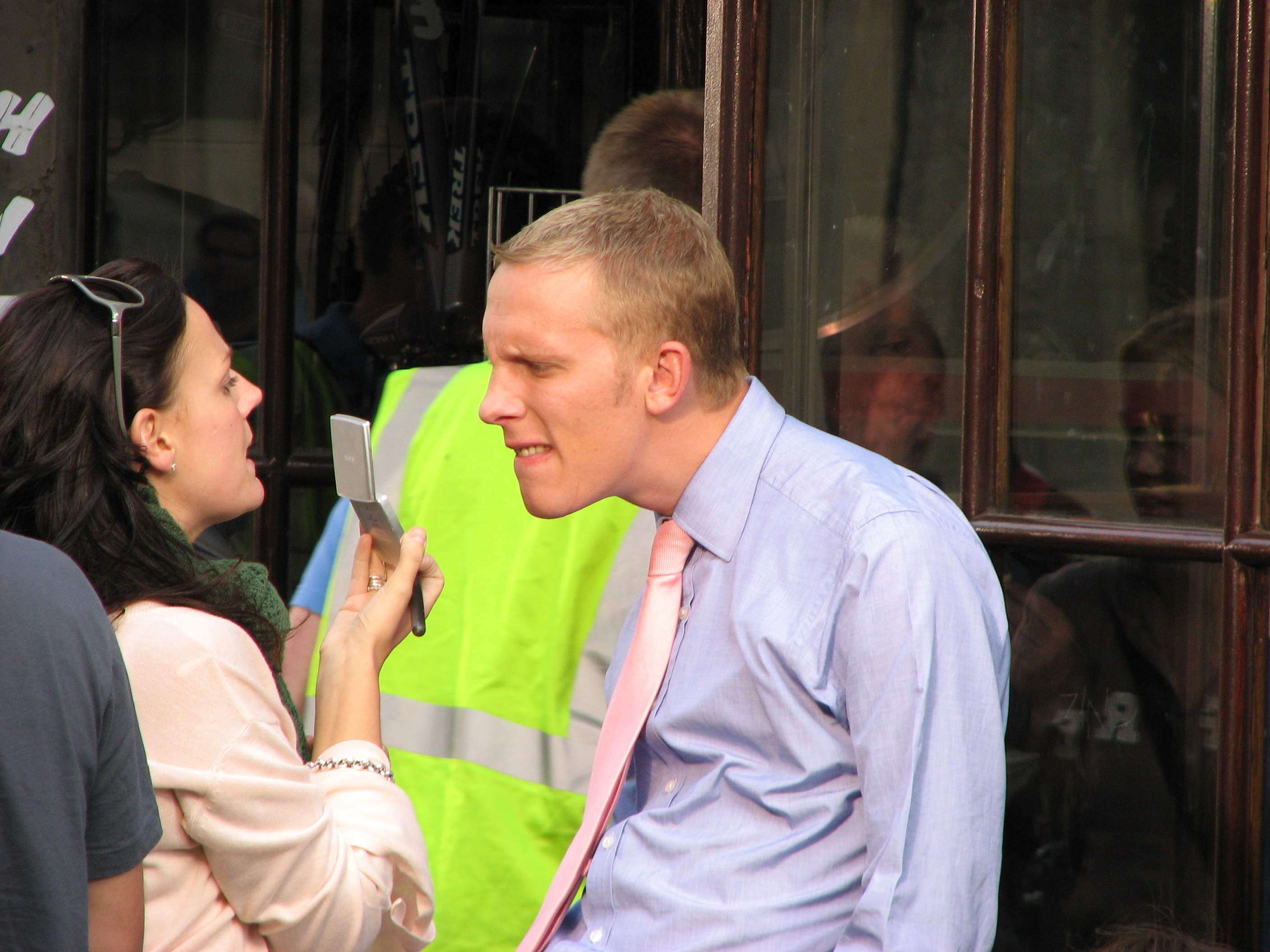 British actor Laurence Fox (born 1978) during the filming of the UK TV series Lewis (2006–2008) on Market Street in Oxford, England on 18 September 2006.